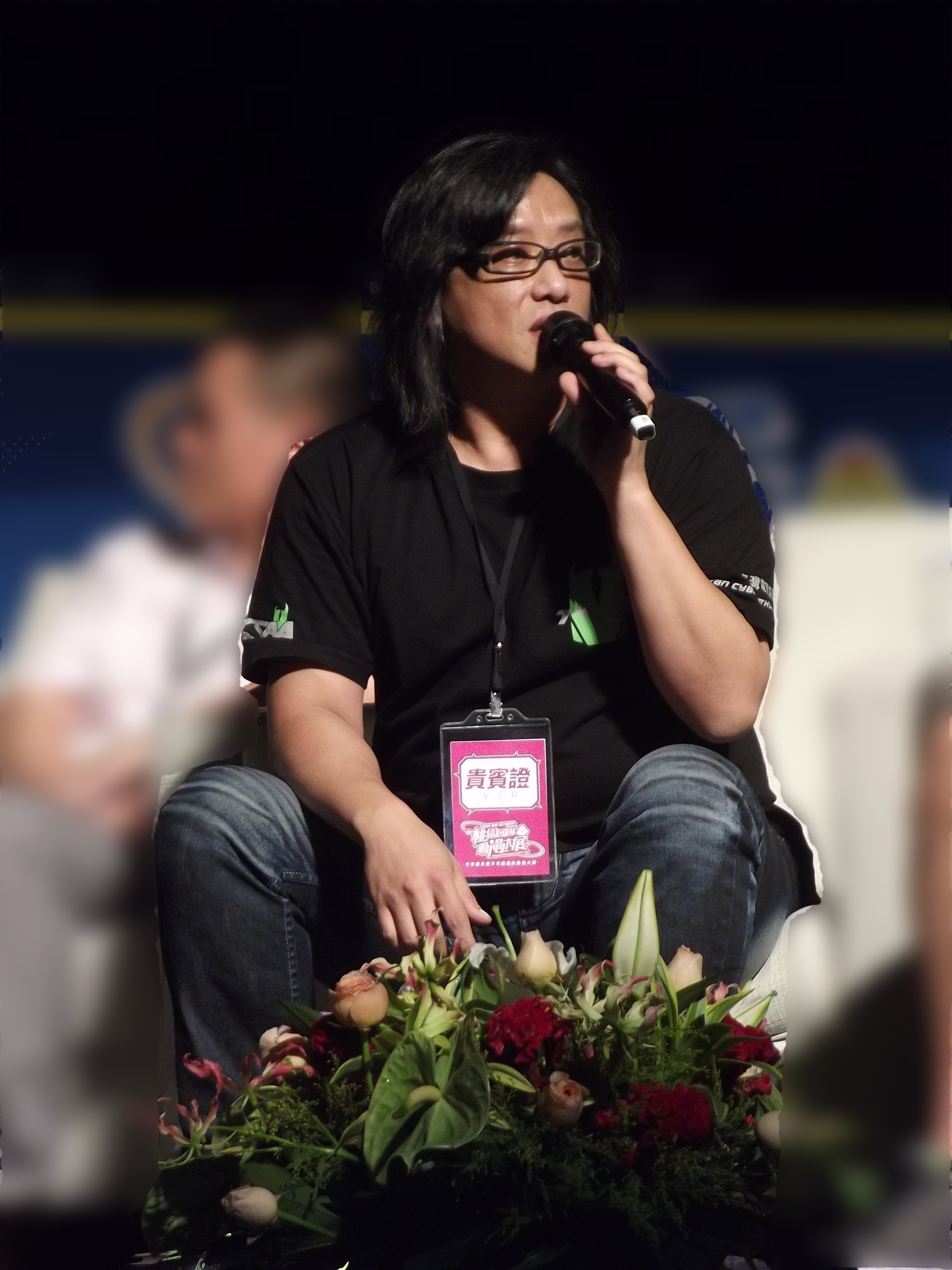 Michael Wen-Ping Shih, Chairman of Taiwan Cyber Athlete Association. (2014 Taoyuan International ACGT Fair Forum.)